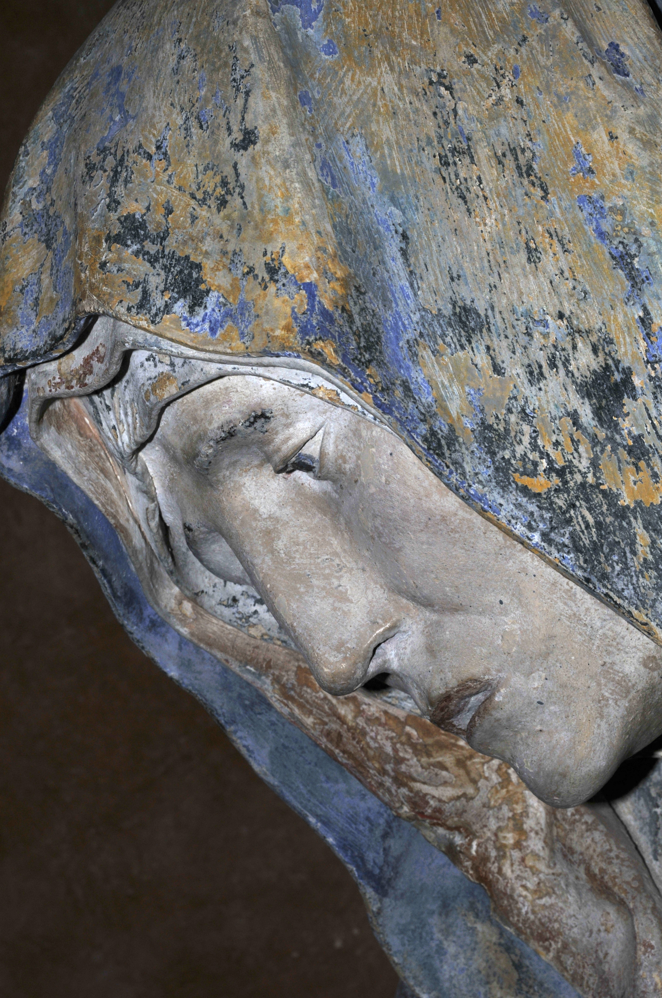 Entombment of Christ by the Master of Chaource 1515-1520 : Mary